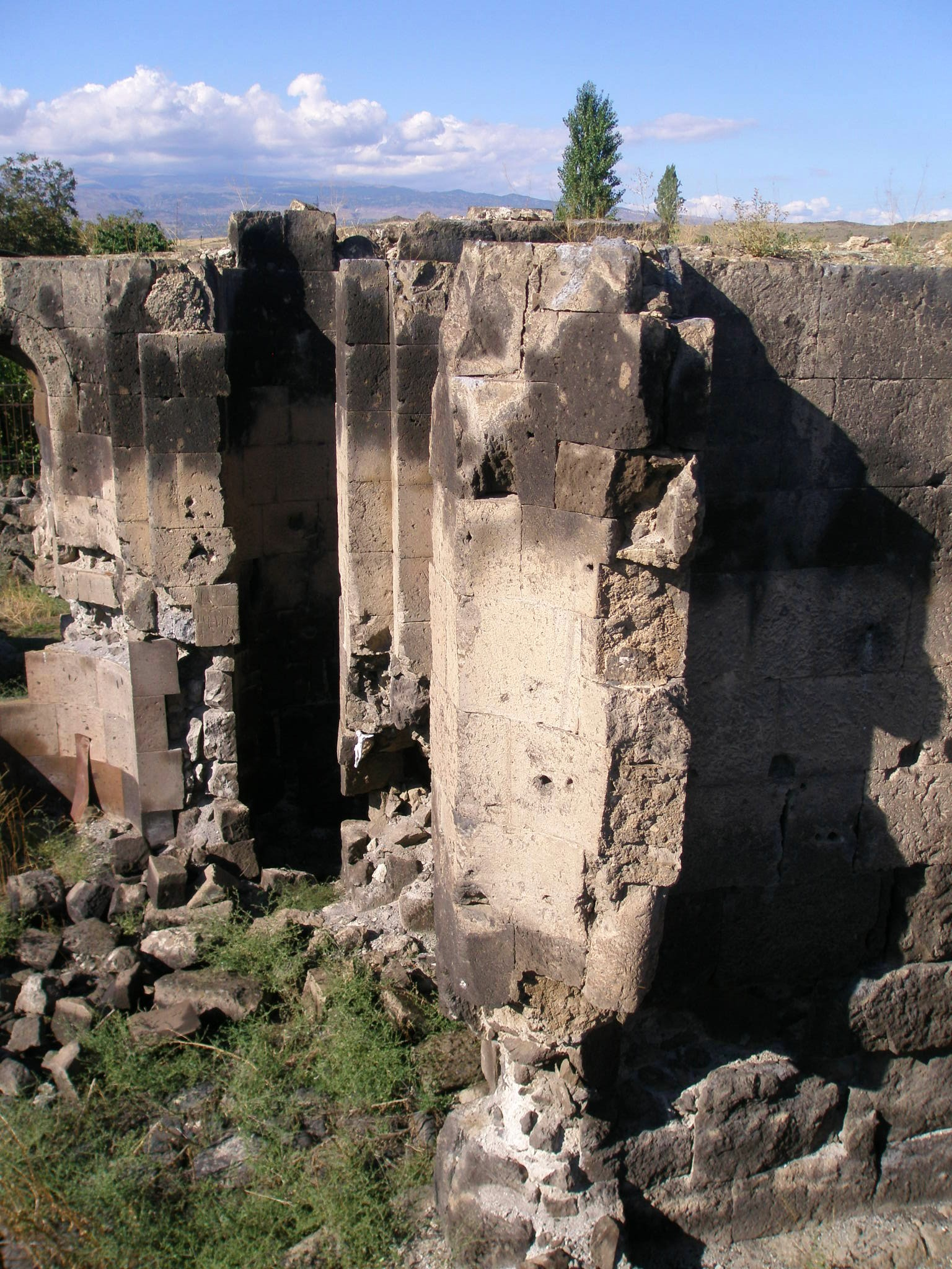 Targmanchats Vank of the 6th to 7th c. at Aigeshat, Armenia